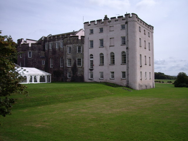 Picton Castle.